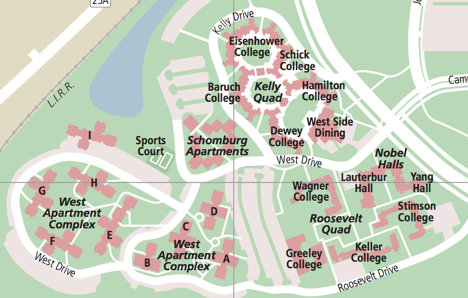 A Portion of the Stony Brook University Map showing Kelly Quad, Roosevelt Quad, Schomburg Apartments, and West Apartments